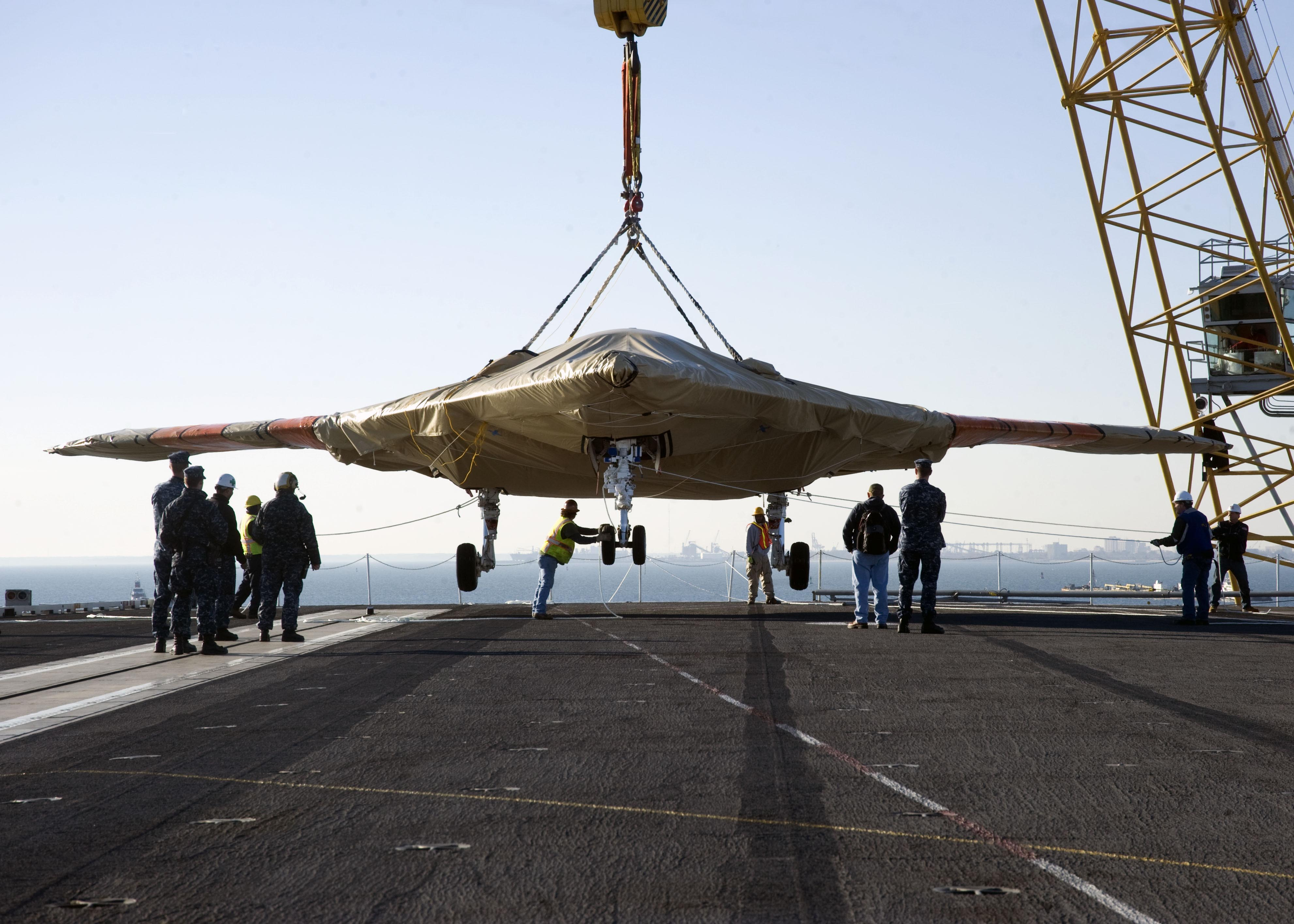 U.S. Navy Sailors assist with the onload of the X-47B Unmanned Combat Air System (UCAS) demonstrator aboard the aircraft carrier USS Harry S. Truman (CVN-75). The air vehicle arrived by barge from Naval Air Station Patuxent River, Md. Truman is the first modern aircraft carrier to host test operations for an unmanned aircraft. The Navy plans to conduct X-47B carrier deck handling tests aboard the ship.